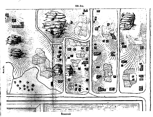 A map of Seneca Village fomerly located in today's Central Park in Manhattan.